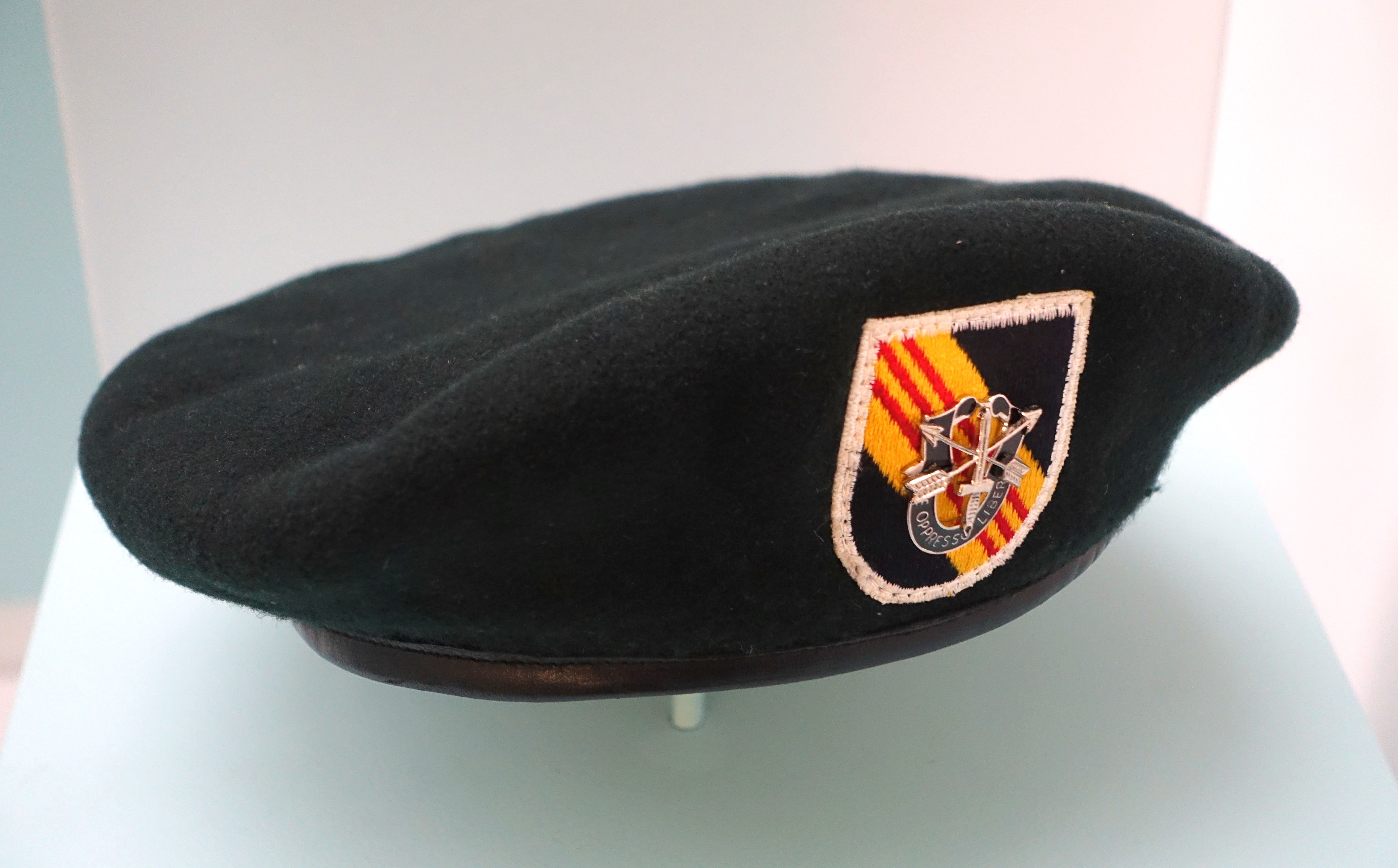 Exhibit in the National Museum of American History, Washington, DC, USA.